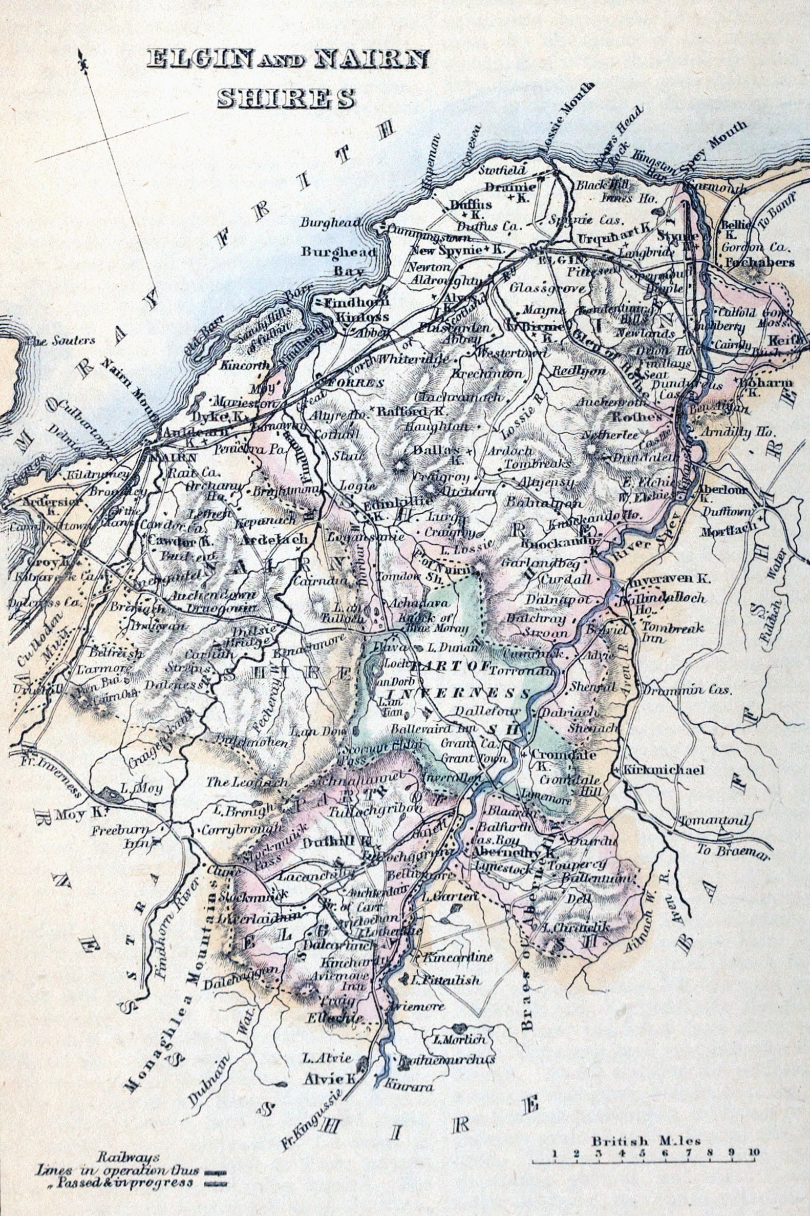 1861 MORAYSHIRE (Elginshire) & NAIRNSHIRE. The Imperial Gazetteer of Scotland. VOL.II. Edited by Rev. John Marius Wilson